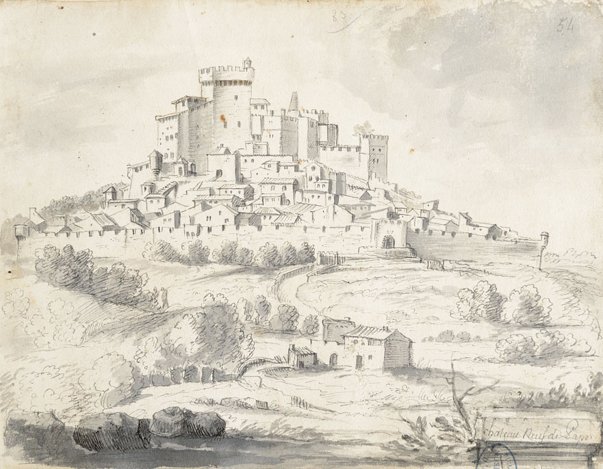 View of the village of Châteauneuf-du-Pape in the Vaucluse department, southern France.